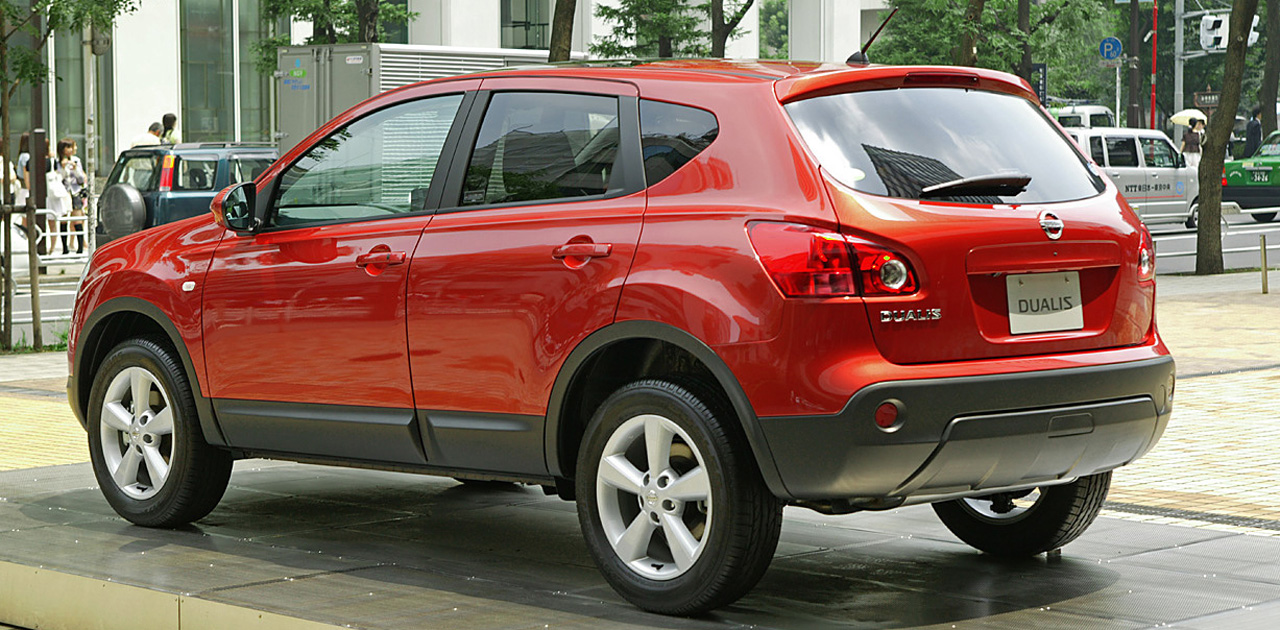 Nissan Dualis 20G Four ( KNJ10 )